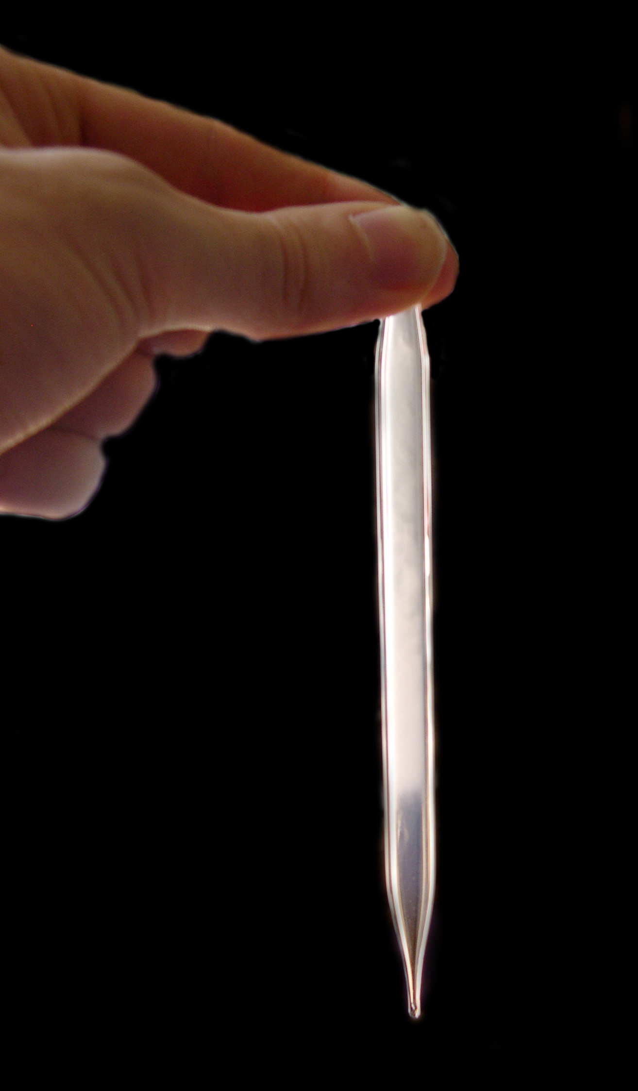 carbon dioxide forming a fog when cooling from supercritical to critical temperature